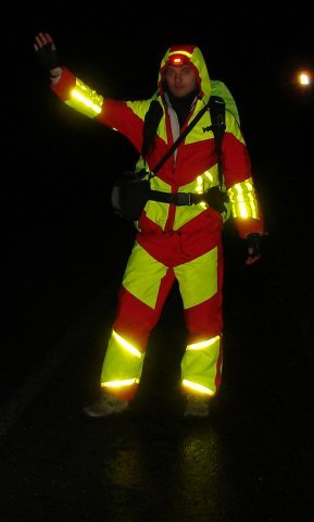 hitchhiker's suit